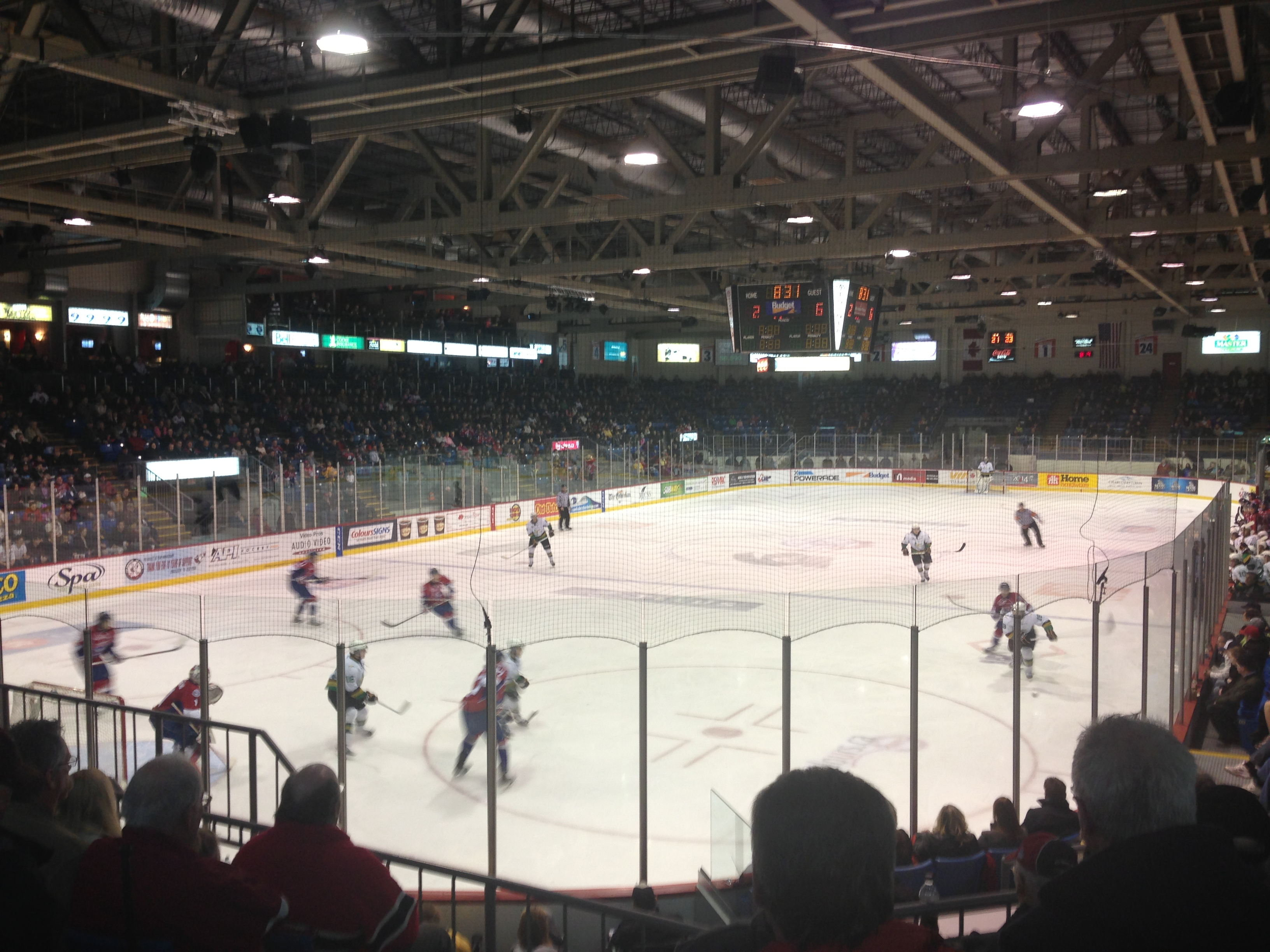 Template:The Charlottetown Civic Centre during a PEI Rocket game